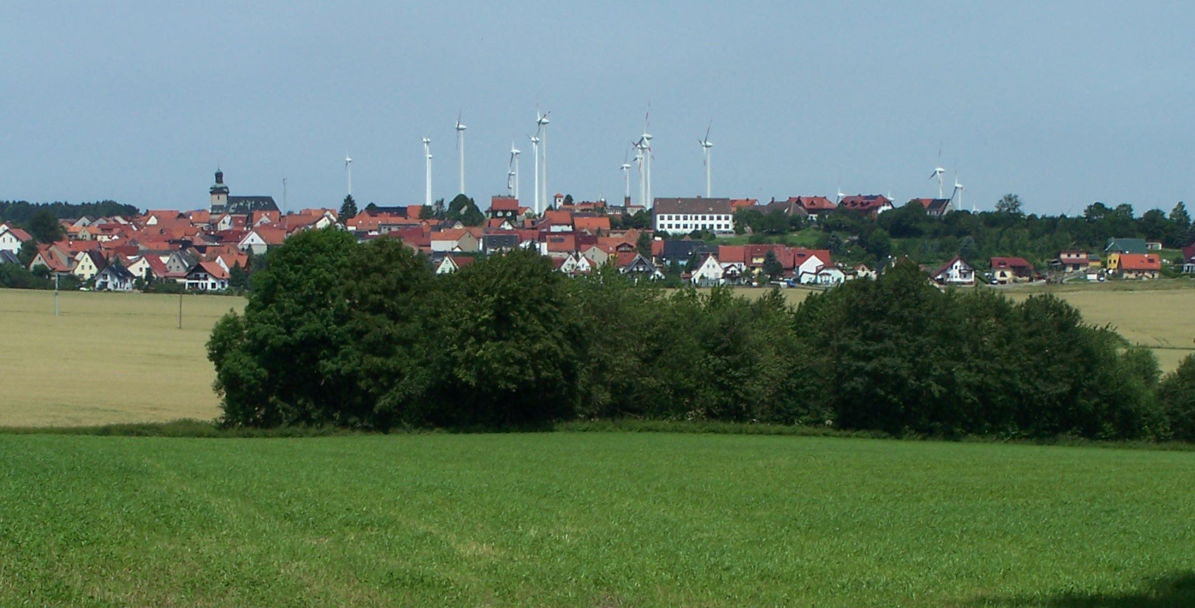 The village Struth.